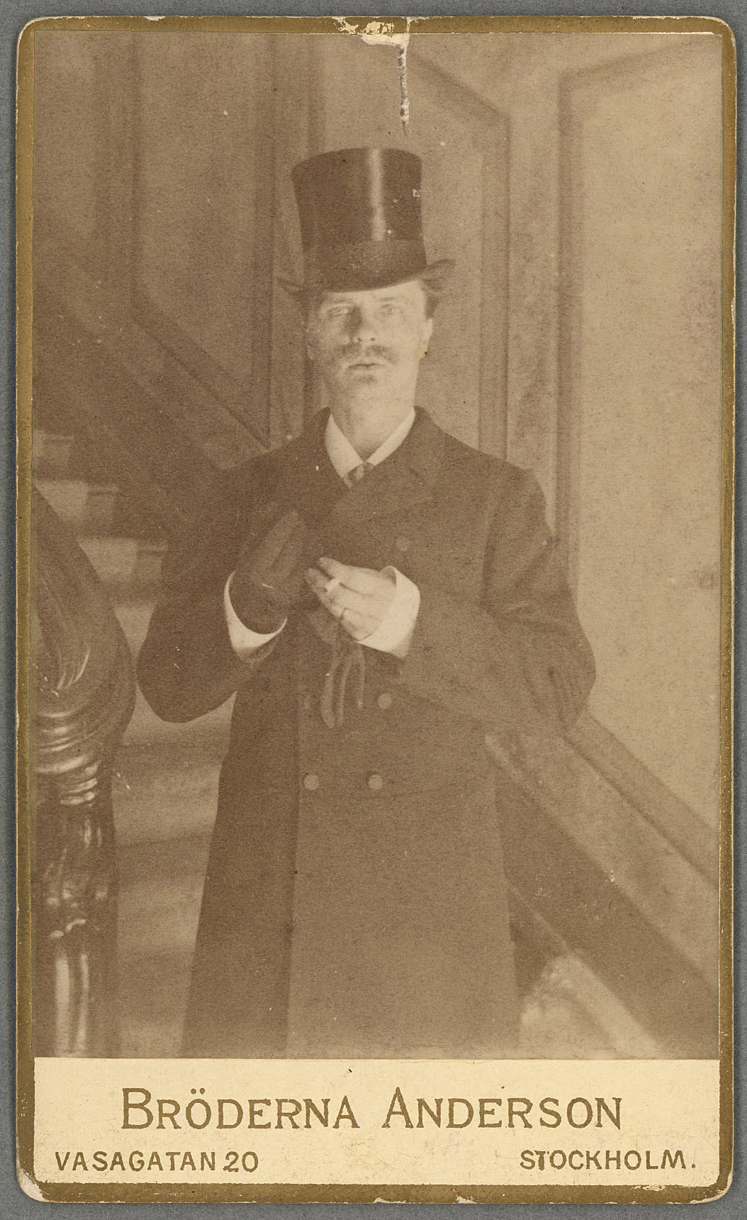 Self-portrait of Swedish author August Strindberg. Date: 1886 Photographer: August Strindberg Part Of: National Library of Sweden, Collection of Manuscripts, Strindbergsrummet